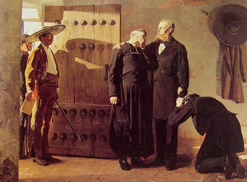 The Last moments of Maximilian, Emperor of Mexico. Held by the Hermitage, St. Petersburg.